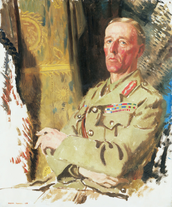 Brigadier-General the Rt Hon J E B Seely, CB, DSO, MP, 1918 image: A half-length portrait of Seely in uniform sitting against a background draped in patterned fabric.